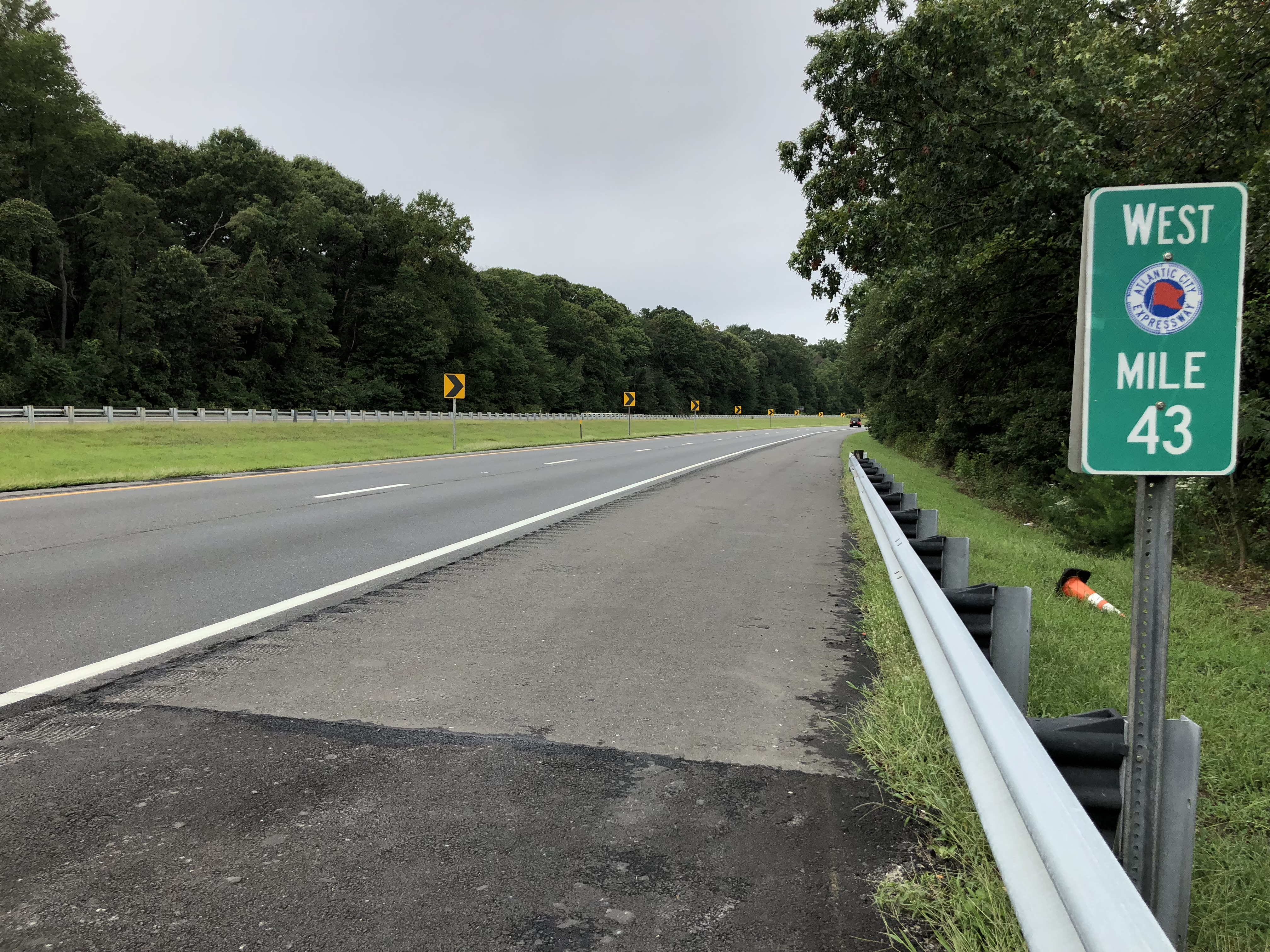 View west along New Jersey State Route 446 (Atlantic City Expressway) between Exit 41 and Exit 44 in Washington Township, Gloucester County, New Jersey